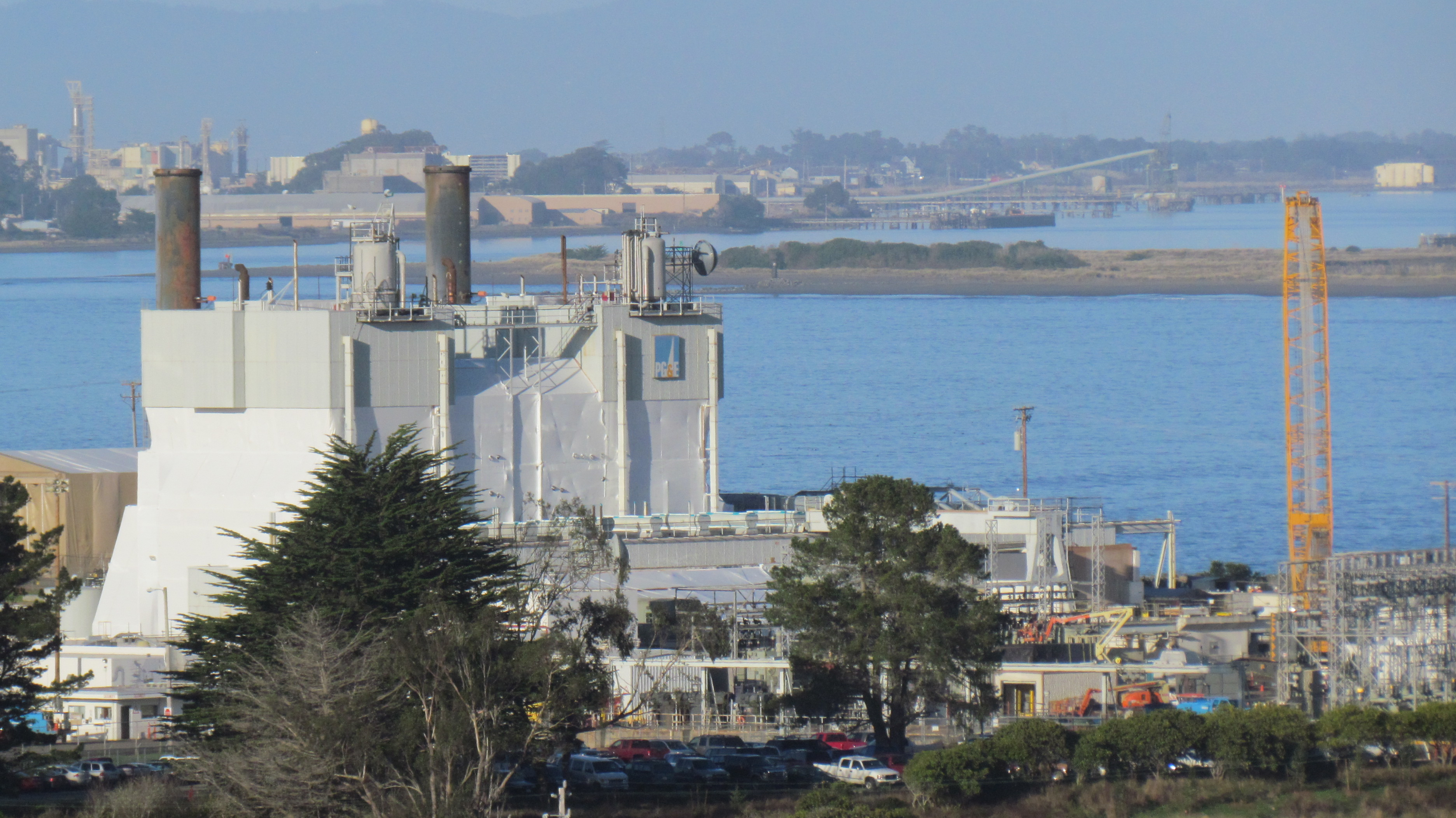 One of the early boiling water reactors. Supposedly this plant had lost some fuel rods, but all have been accounted for and verified removed. The picture above shows units 1 & 2 (Non Nuclear) covered with plastic sheeting. These units are being dismantled and the sheeting prevents any release of potentially harmful materials - protecting the local public.